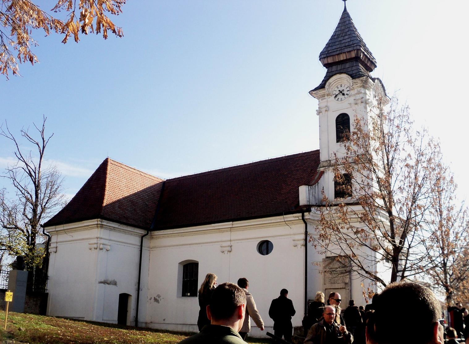 Catholic Church of Saint Roch in Vukovar